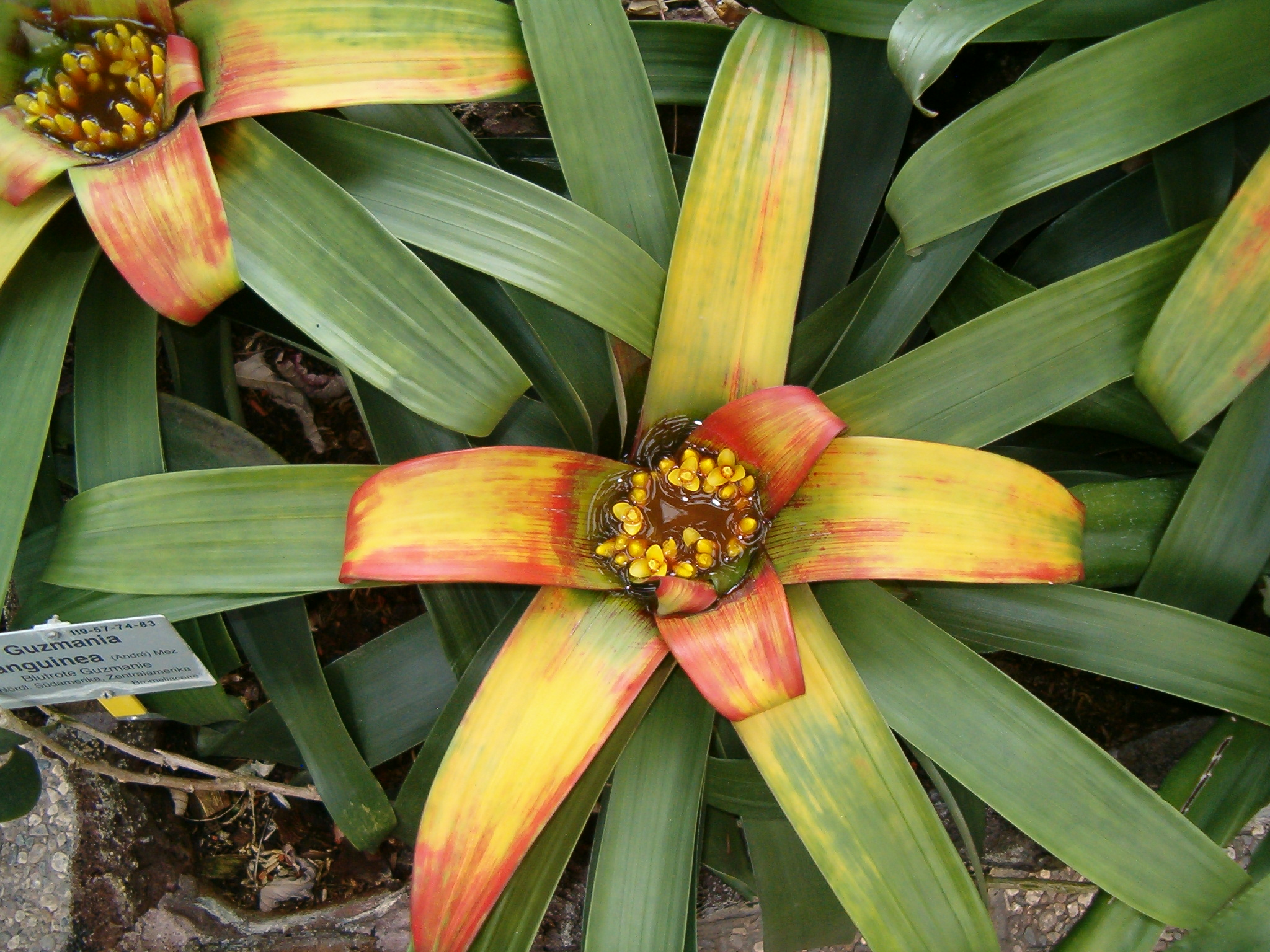 Habitus and Inflorescence Location: Botanical Gardens Berlin